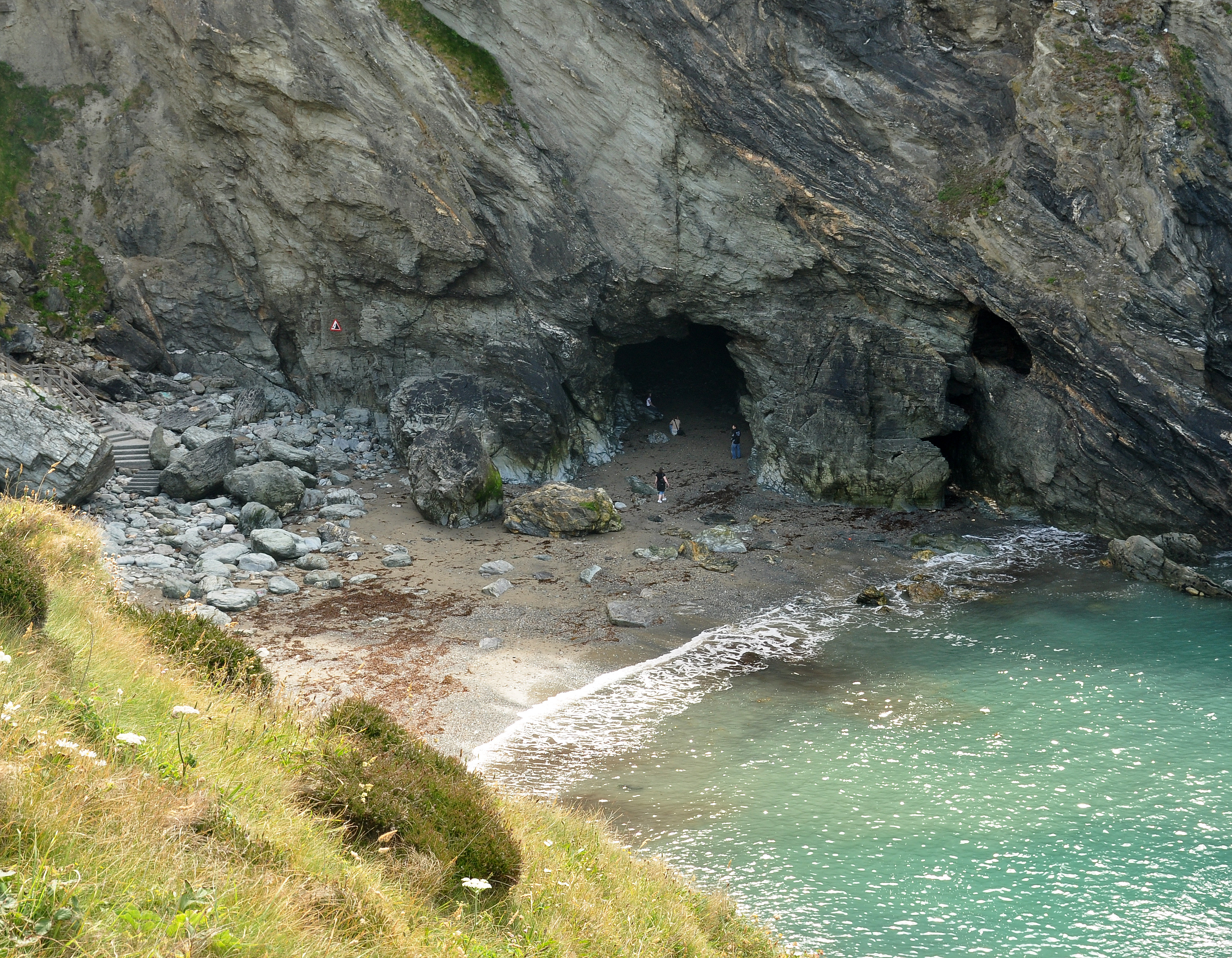 Merlin's Cave and Tintagel Haven